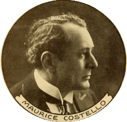 Advertisement in The Moving Picture World